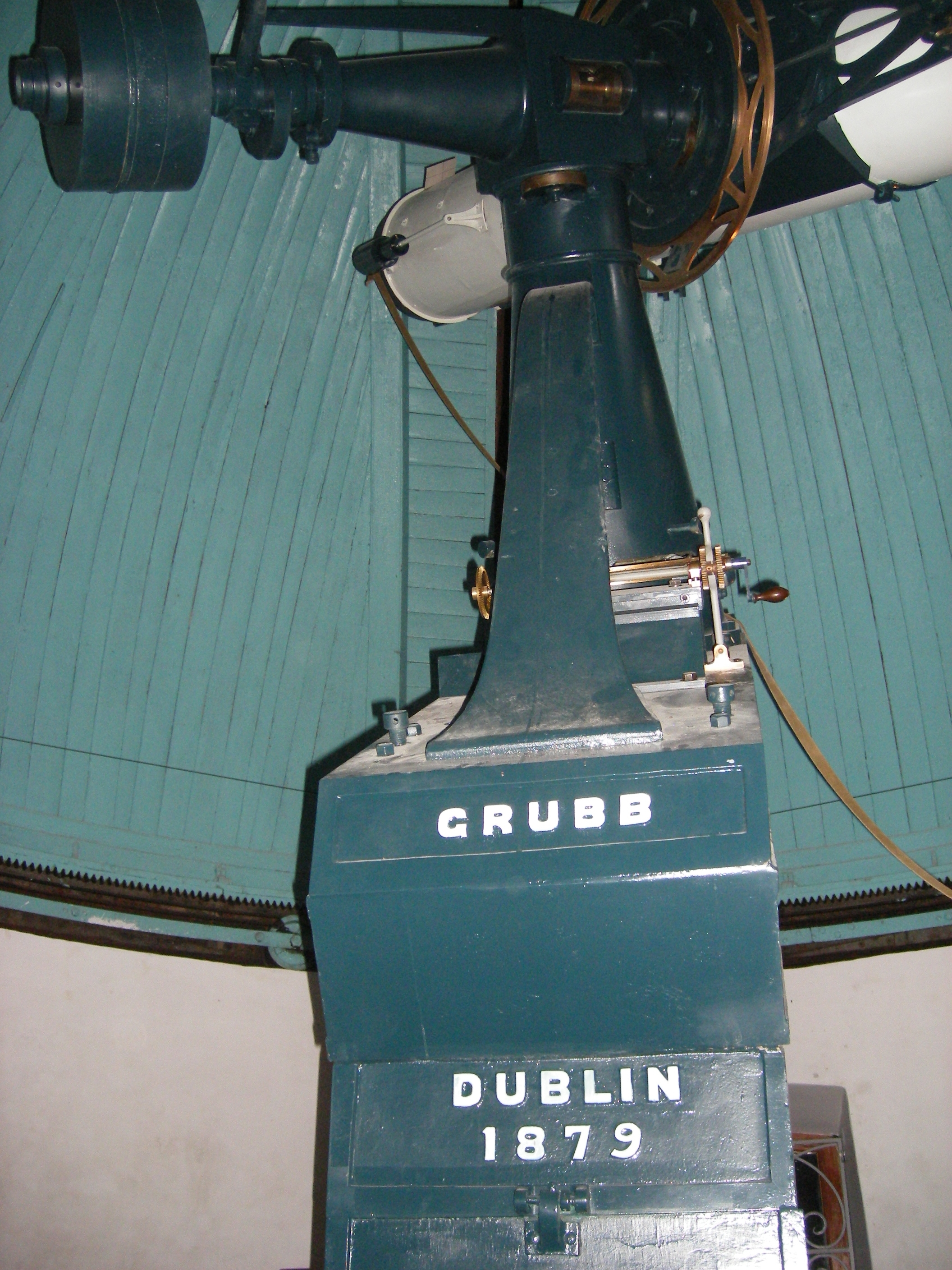 Engelgardt telescope